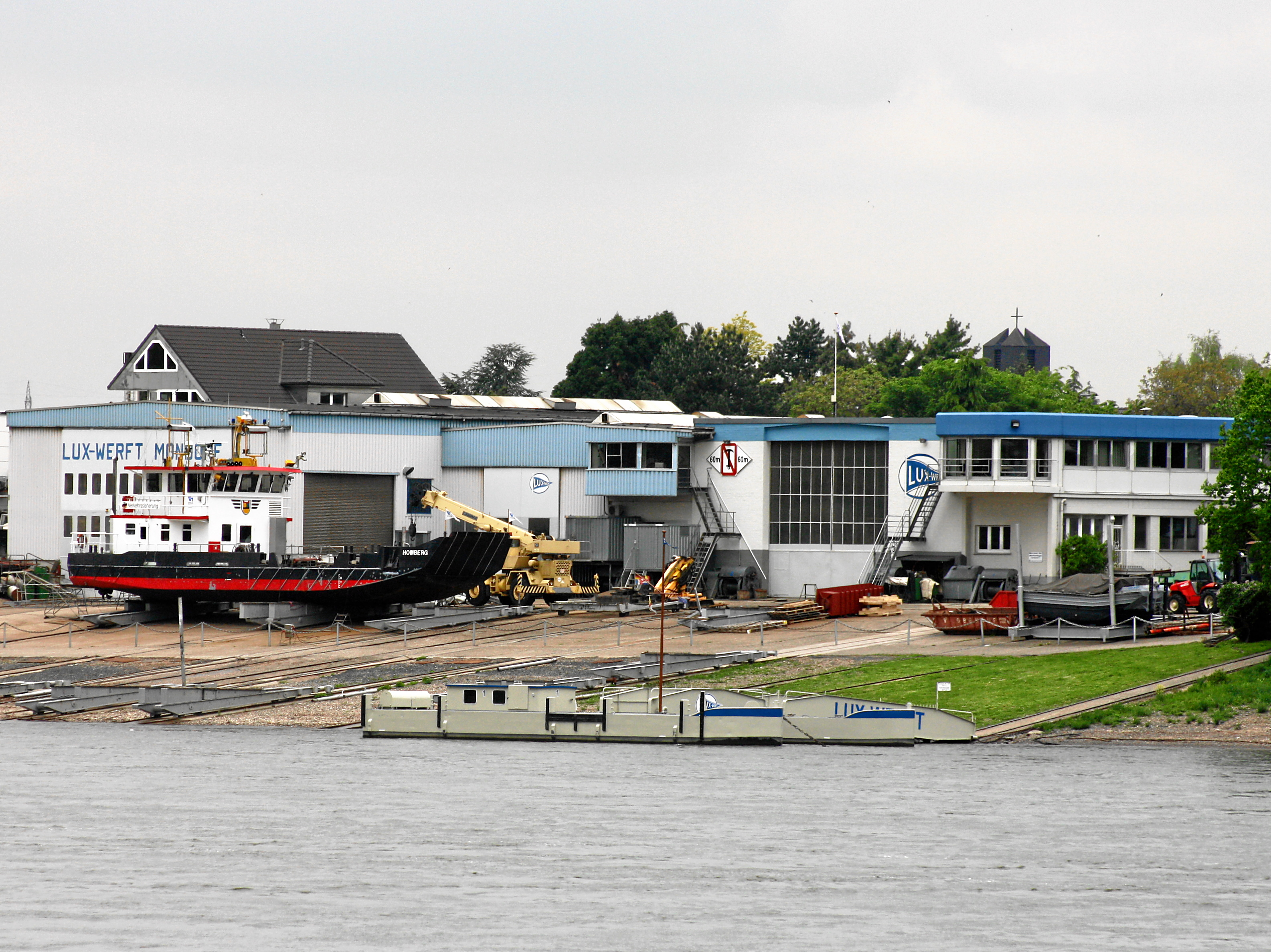 Niederkassel-Mondorf, Germany. Shipyard "Lux".